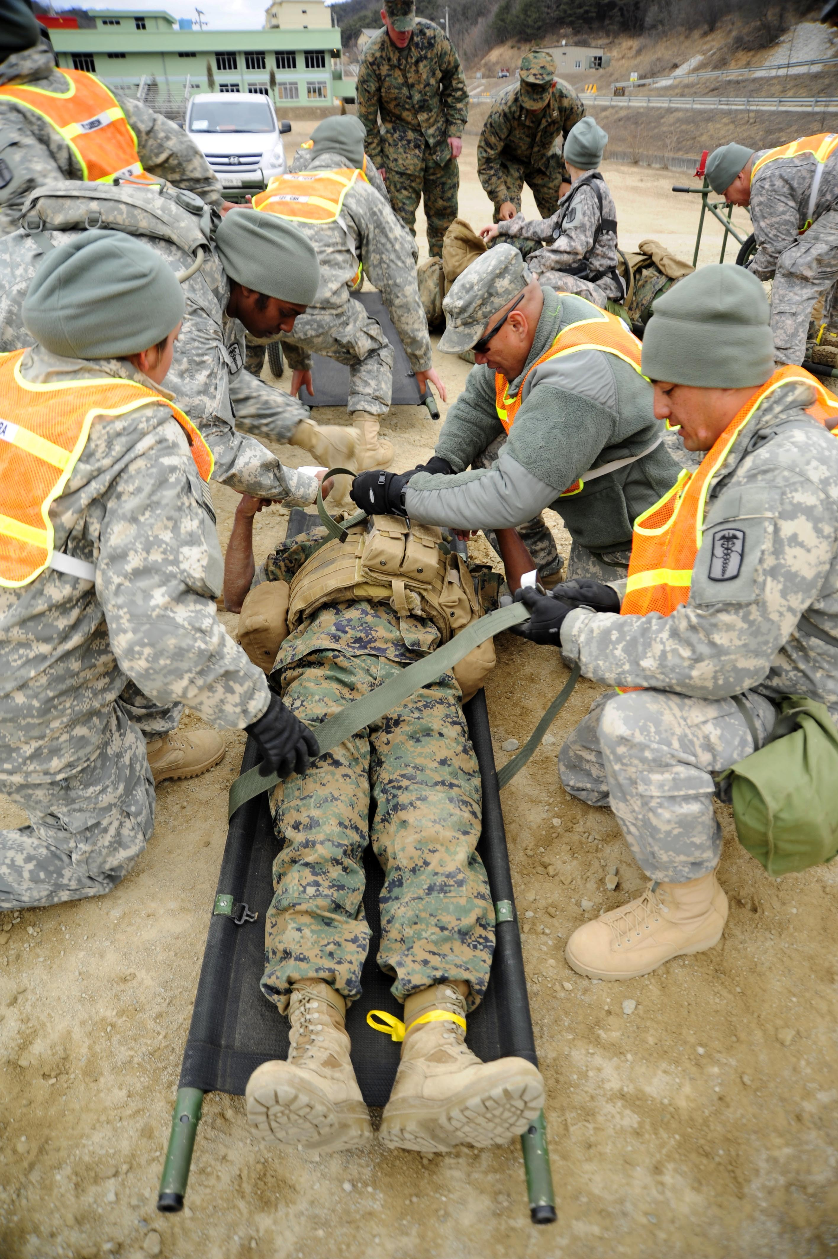 Army personnel assigned to Bravo Company, 121st Combat Support Hospital, based out of Camp Yungsan, Republic of Korea, assess Lance Cpl. Tyone Wilkes for simulated injuries while participating in a mass casualty training exercise. Marines assigned to Fleet Antiterrorism Security Team Company Pacific, 2nd Platoon, are participating in a medical field training exercise with Army personnel assigned to 121st Combat Support Hospital, to test their surgical combat readiness skills. (Navy photo/Petty Officer 3rd Class James Norman)